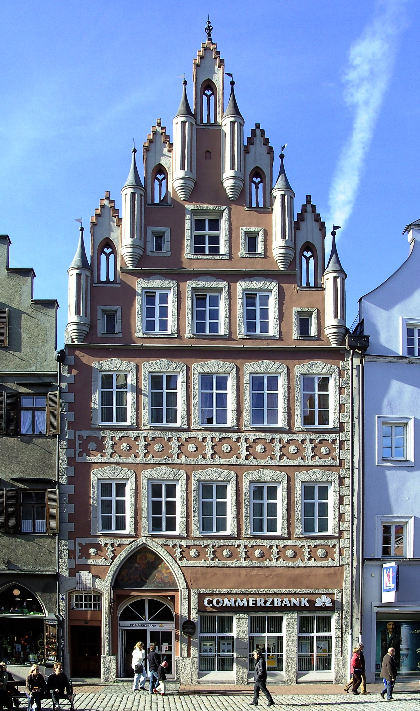 So called "Pappenbergerhaus" (Altstadt 81) in the historic centre of Landshut, Bavaria. (15th century).